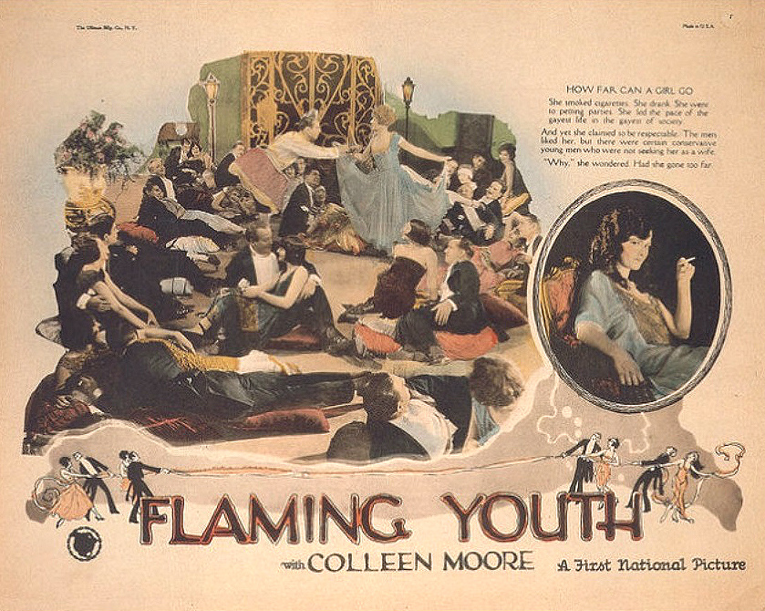 Lobby card for the 1923 film Flaming Youth. There are no copyright markings pertaining to the image as can be seen in the links above. At top is The Ullman Mfg. Co., NY. and Made in USA.